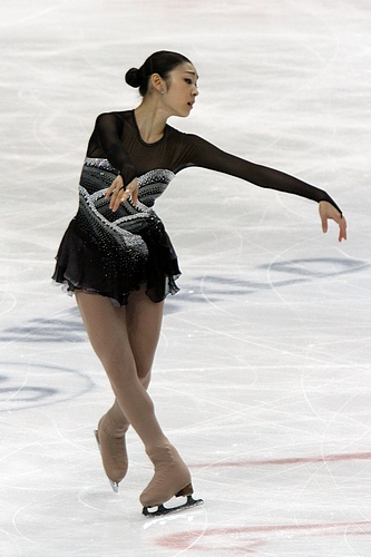 Kim 2011 World Championship FS